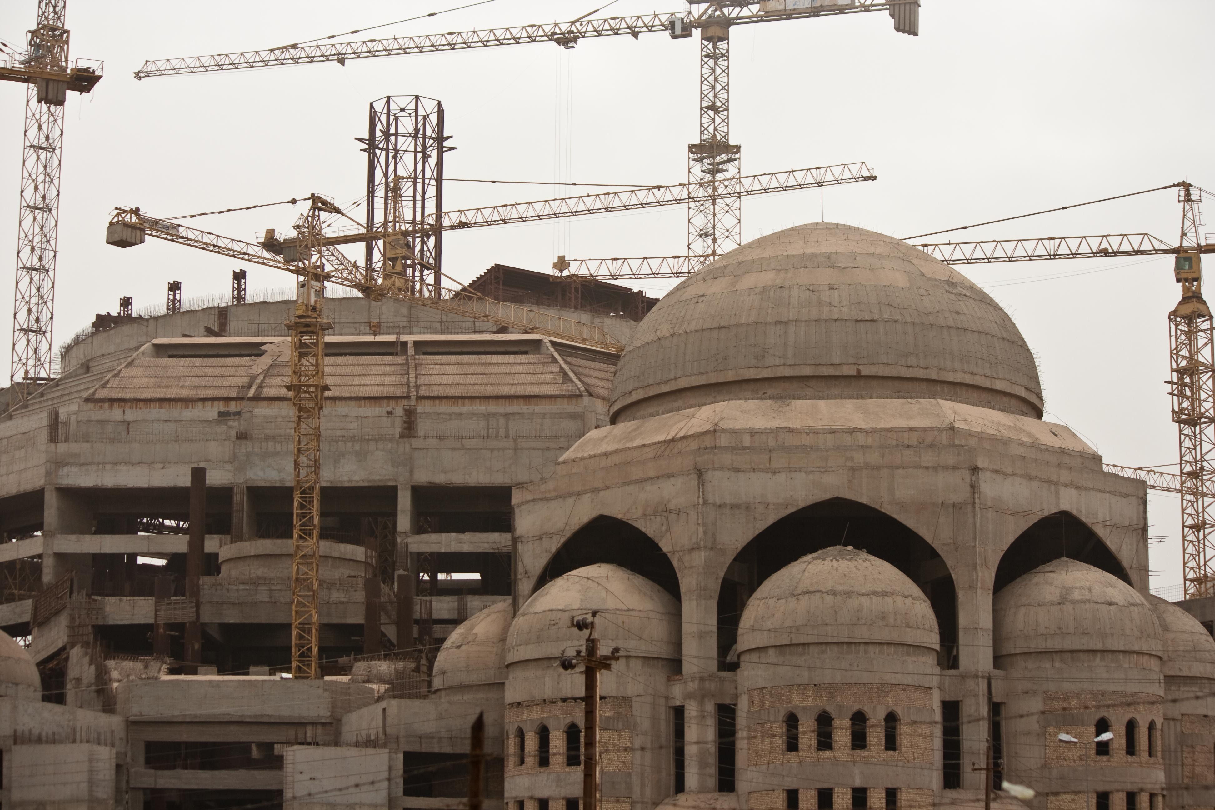 Started during the reign of Saddam Hussein and intended to be the second largest mosque in Iraq, the al-Rahman mosque still stands uncompleted in Baghdad.